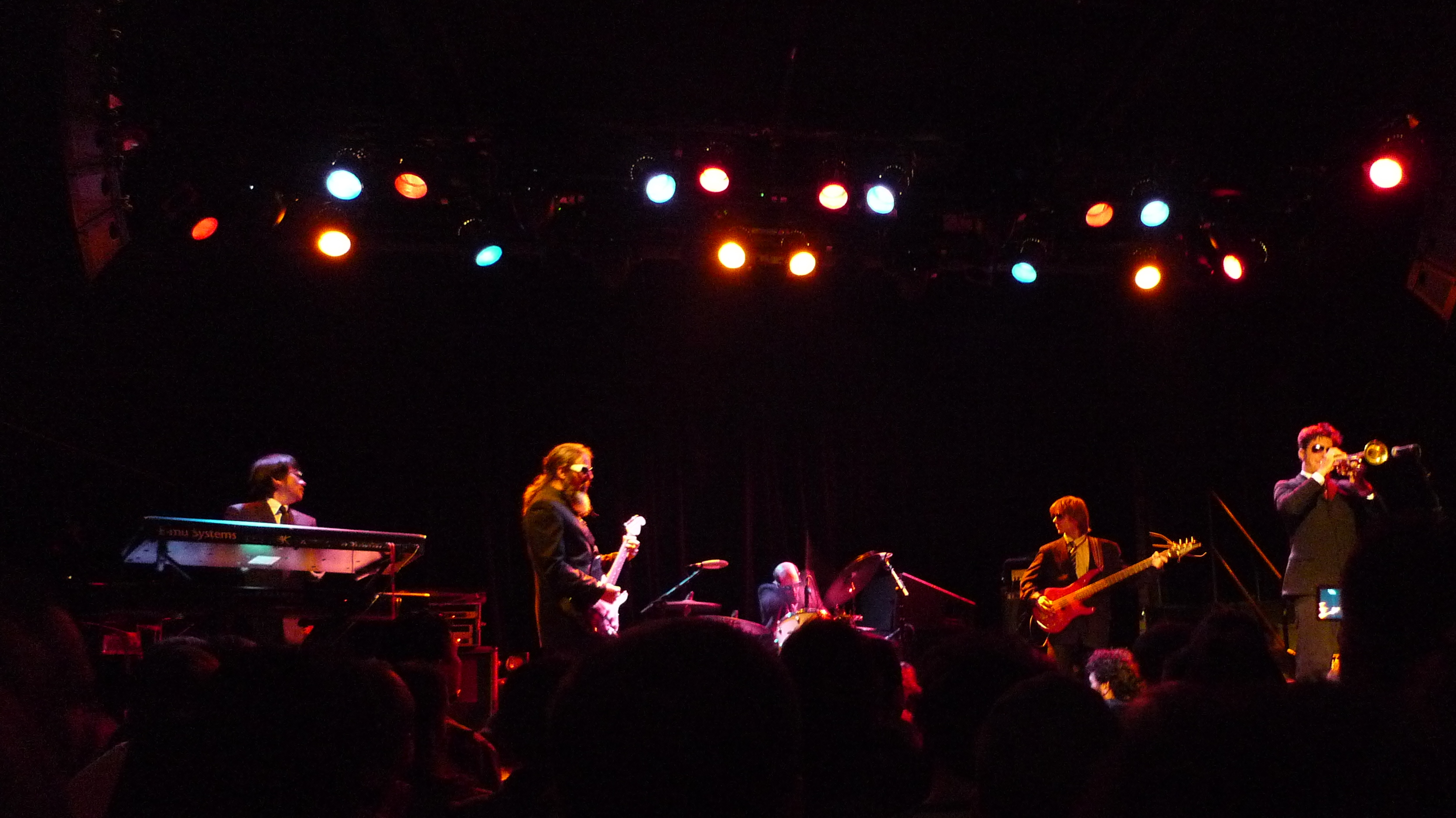 Secret Chiefs 3, an American avant-garde music group from San Francisco, performing at Williamsburg Music Hall, Brooklyn, New York, May 30, 2009